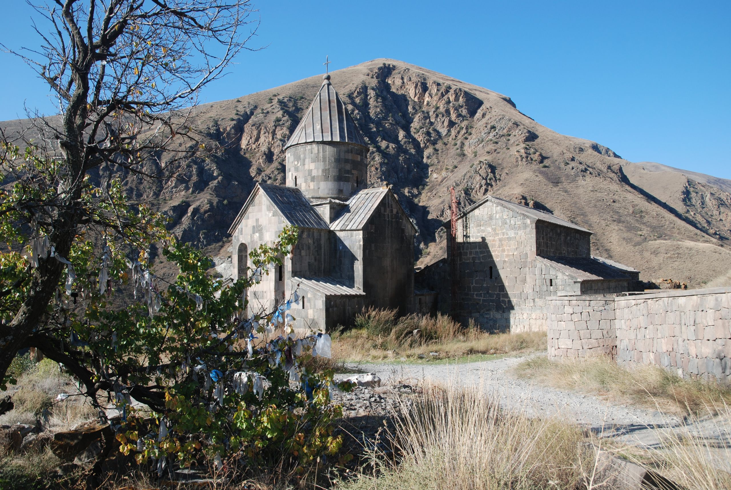 Vorotnavank from northeast